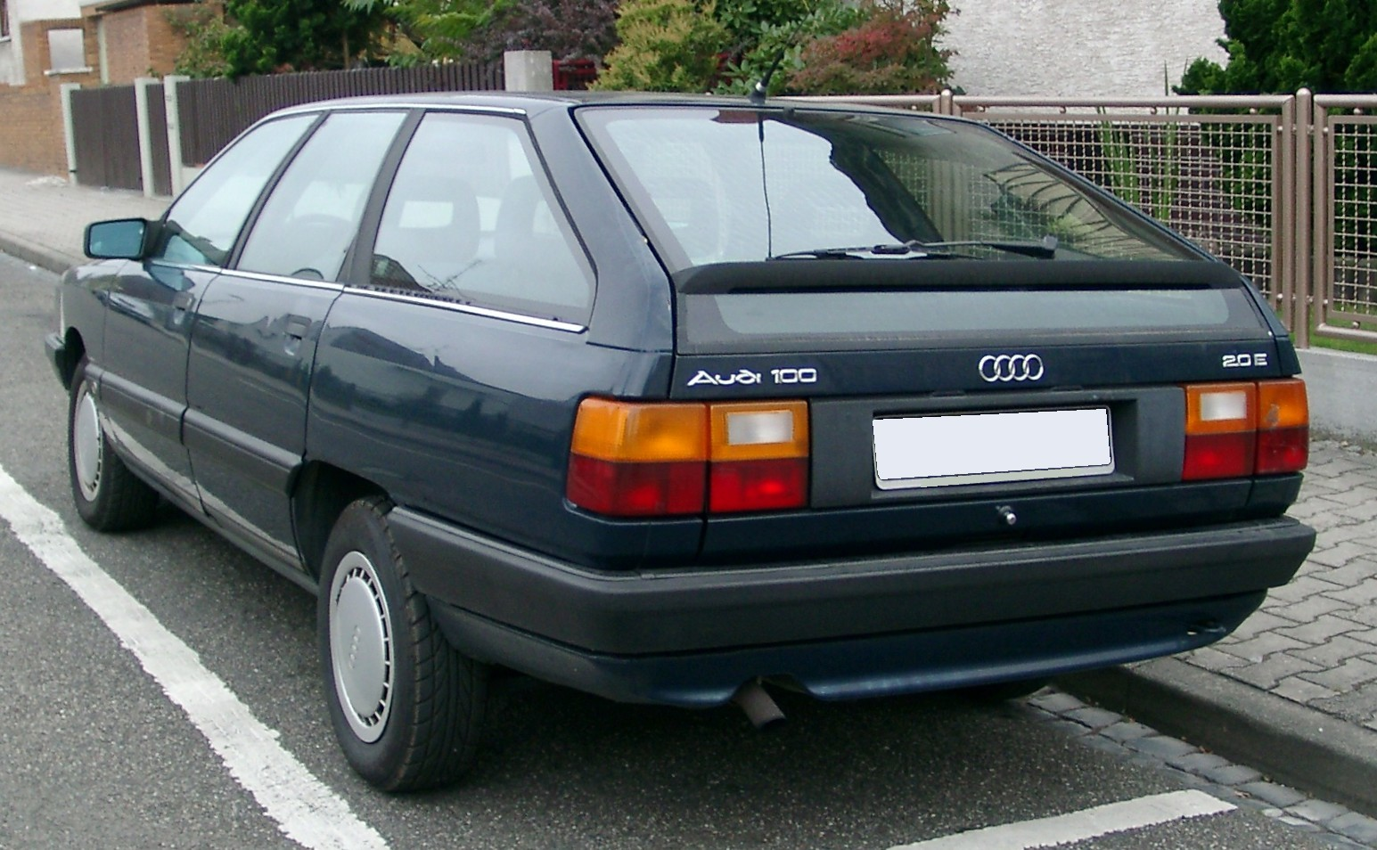 Audi 100 Avant 2.0E (C3)